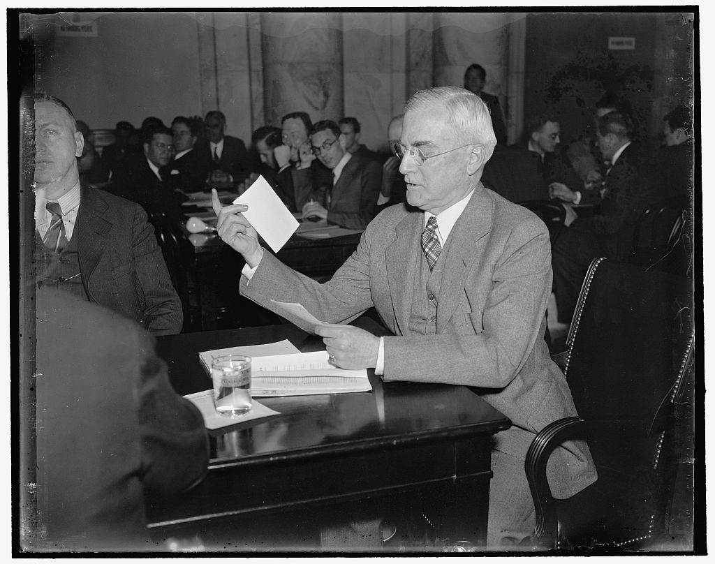 Edward S. Corwin told the Senate Judiciary Committee on March 17, 1937 that the Supreme Court erred in finding parts of the New Deal unconstitutional.